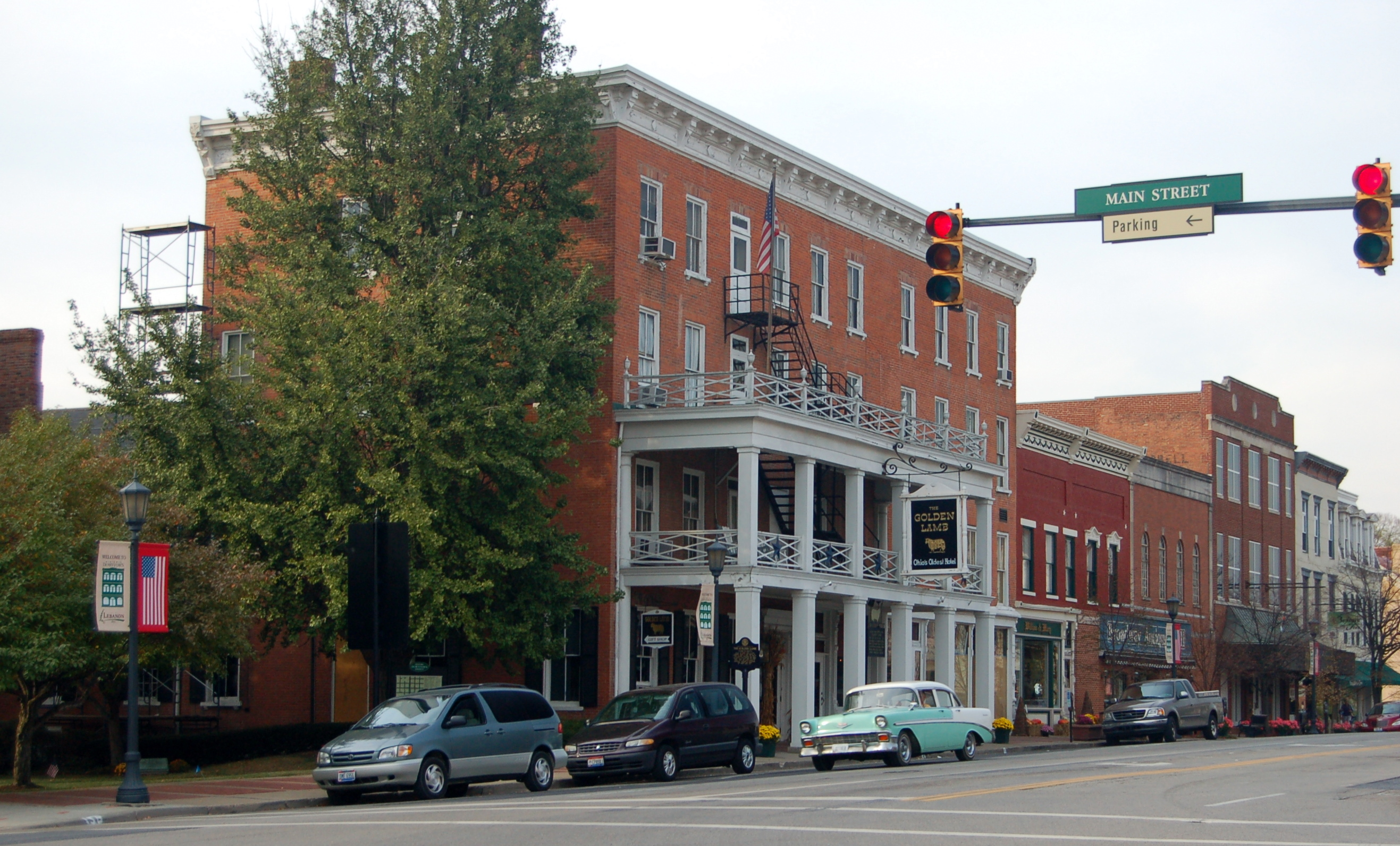 This is "The Golden Lamb" in Lebanon,Ohio. It's taken from almost exactly the same spot as the 1936 photo on the current Wikipedia page pertaining to "The Golden Lamb". But this image was taken in October 2007. Is meant to be a companion to the old one. Some things never change.